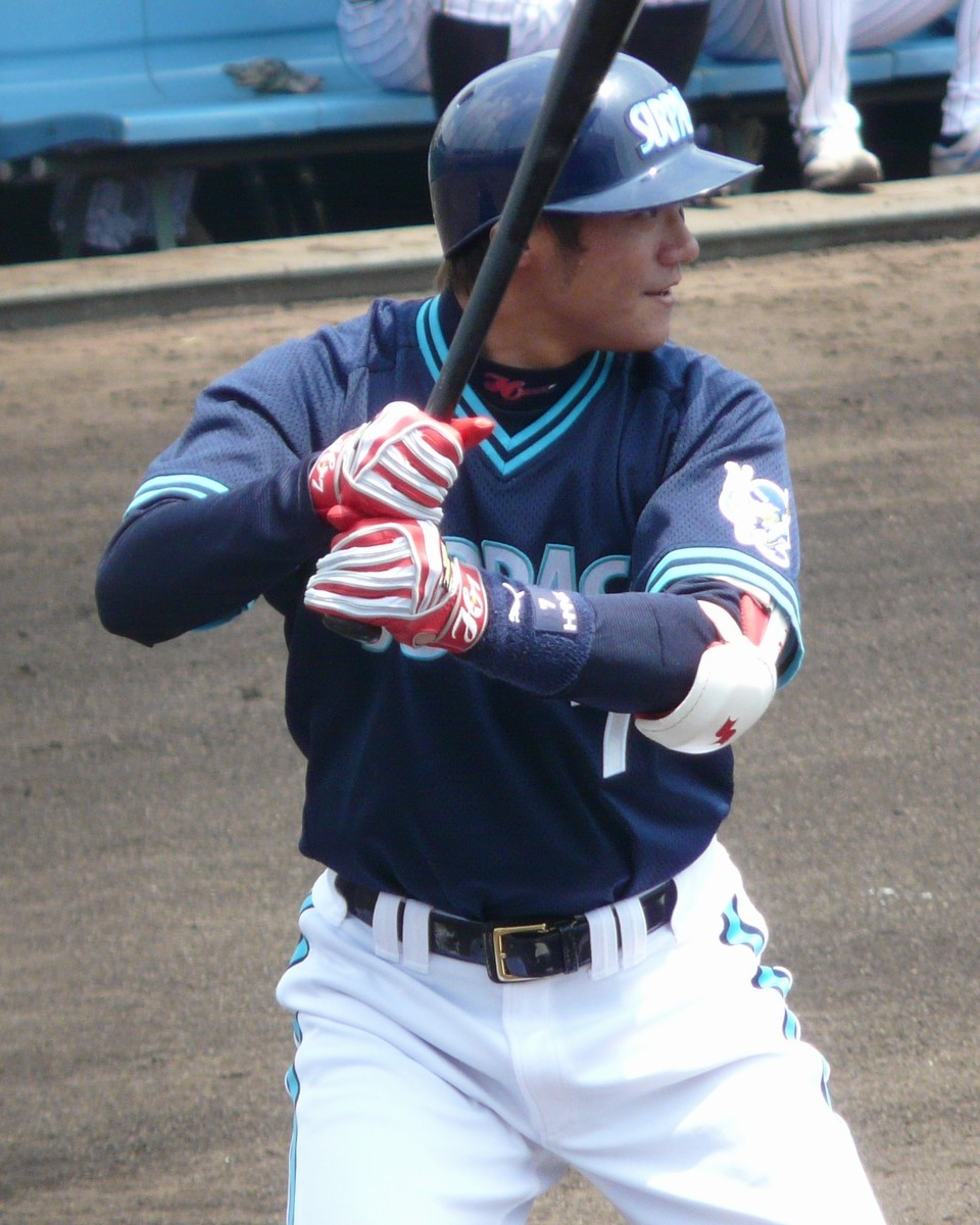 Osamu Hamanaka, outfielder of the Surpass, at Hanshin Naruohama Baseball Ground.